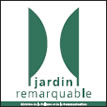 Sign indicating a Jardin Remarquable, a Remarkable Garden of France, placed by the Committee of Parks and Gardens of the French Ministry of Culture at each garden